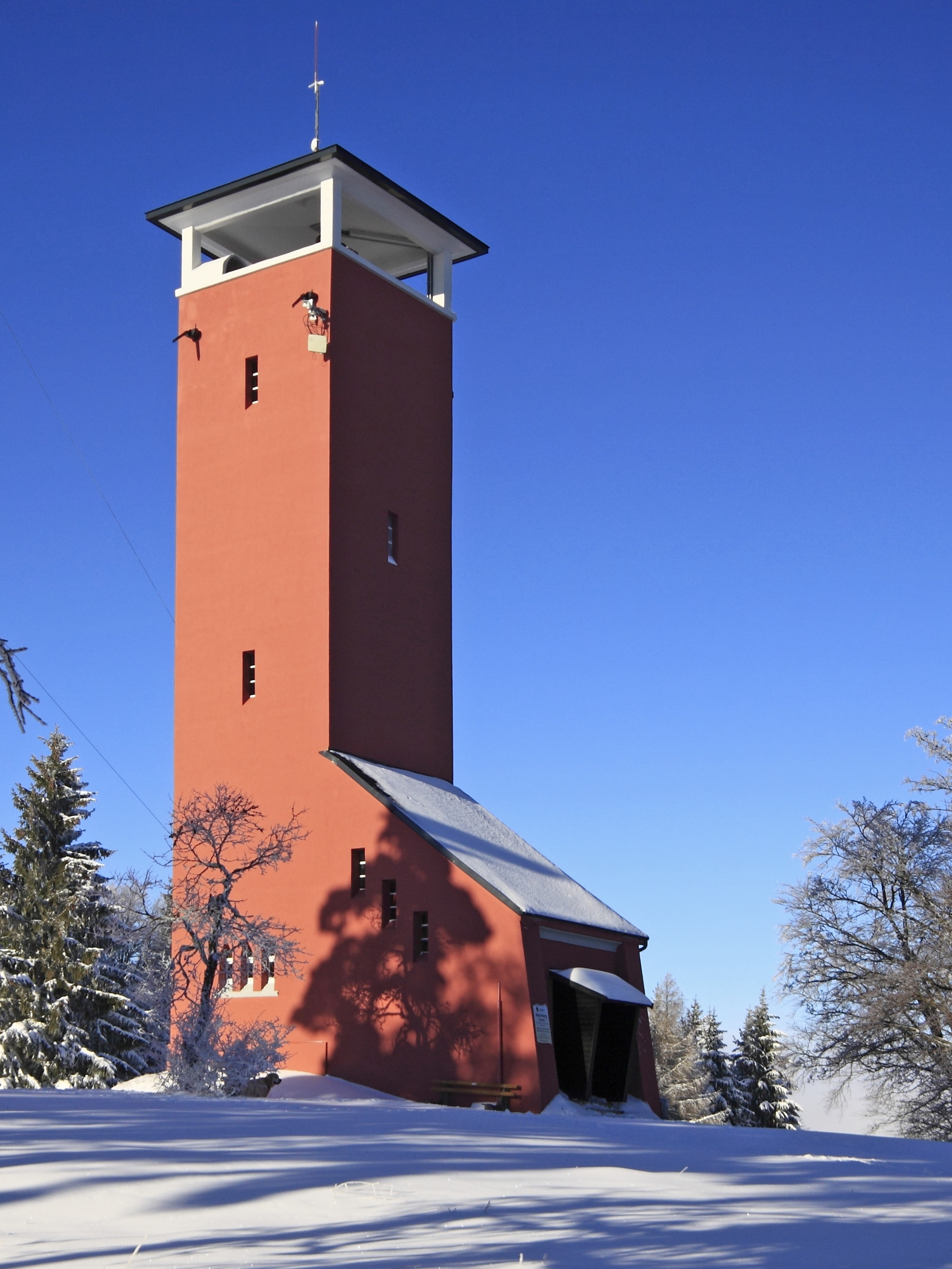 Observation tower on 'Raichberg' mountain, Albstadt-Onstmettingen, Germany, in winter season